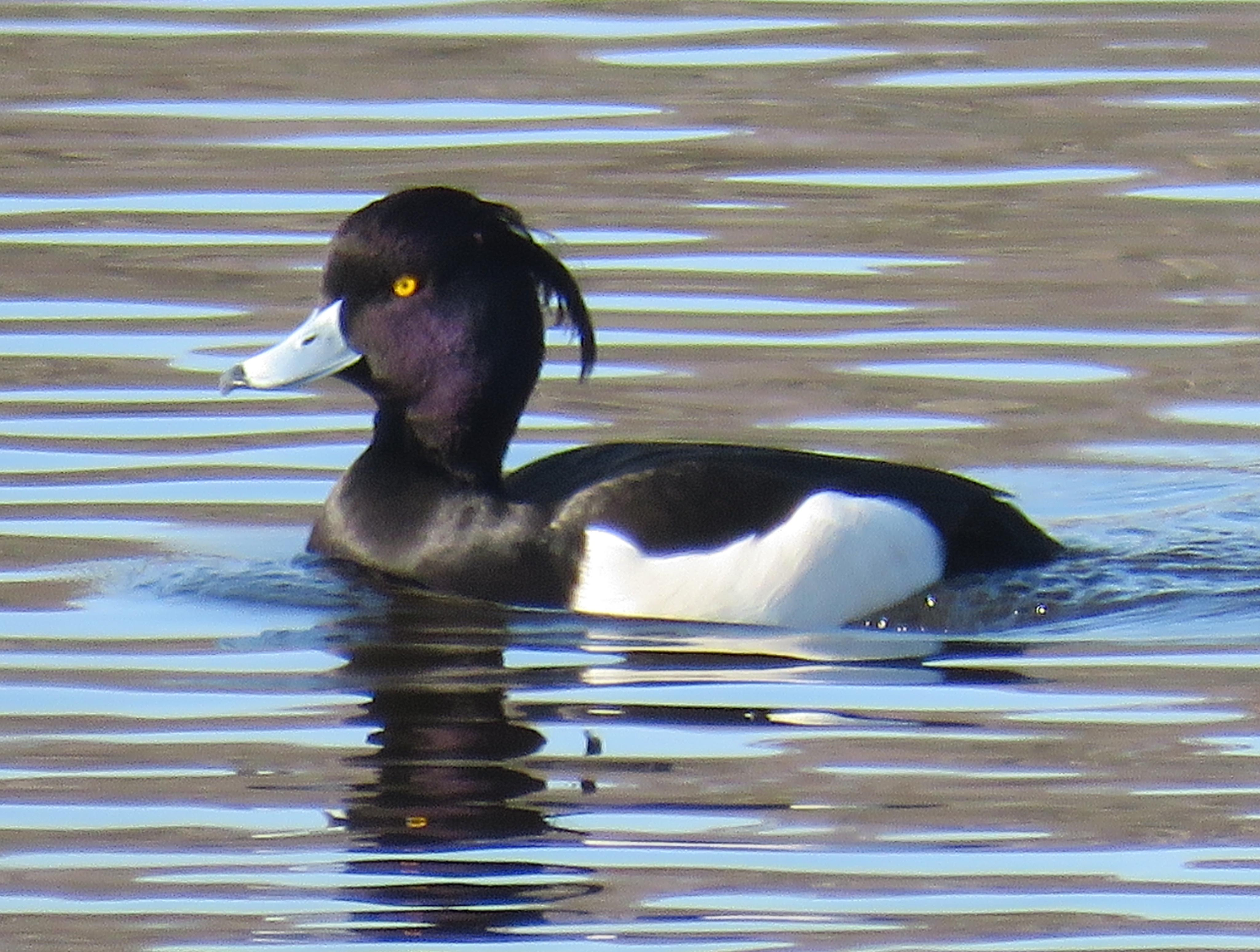 Tufted duck at Mere Sands nature reserve, Lancashire